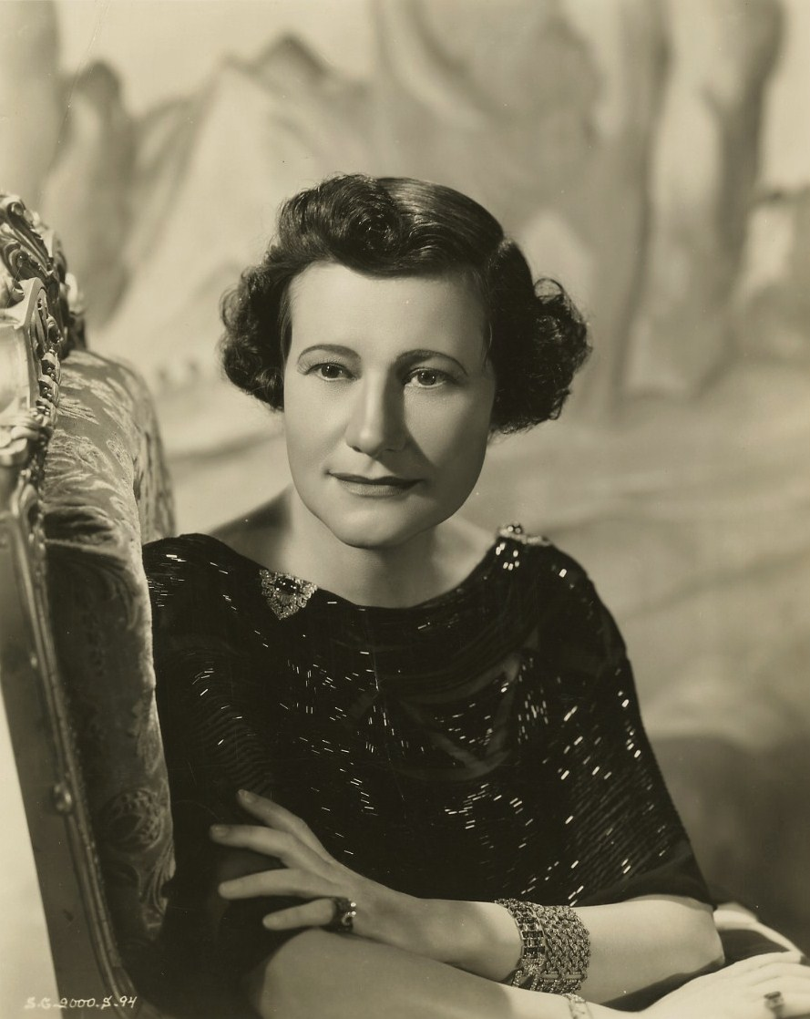 french actress & singer Odette Myrtil - publicity still for the operetta The Firefly (cropped)